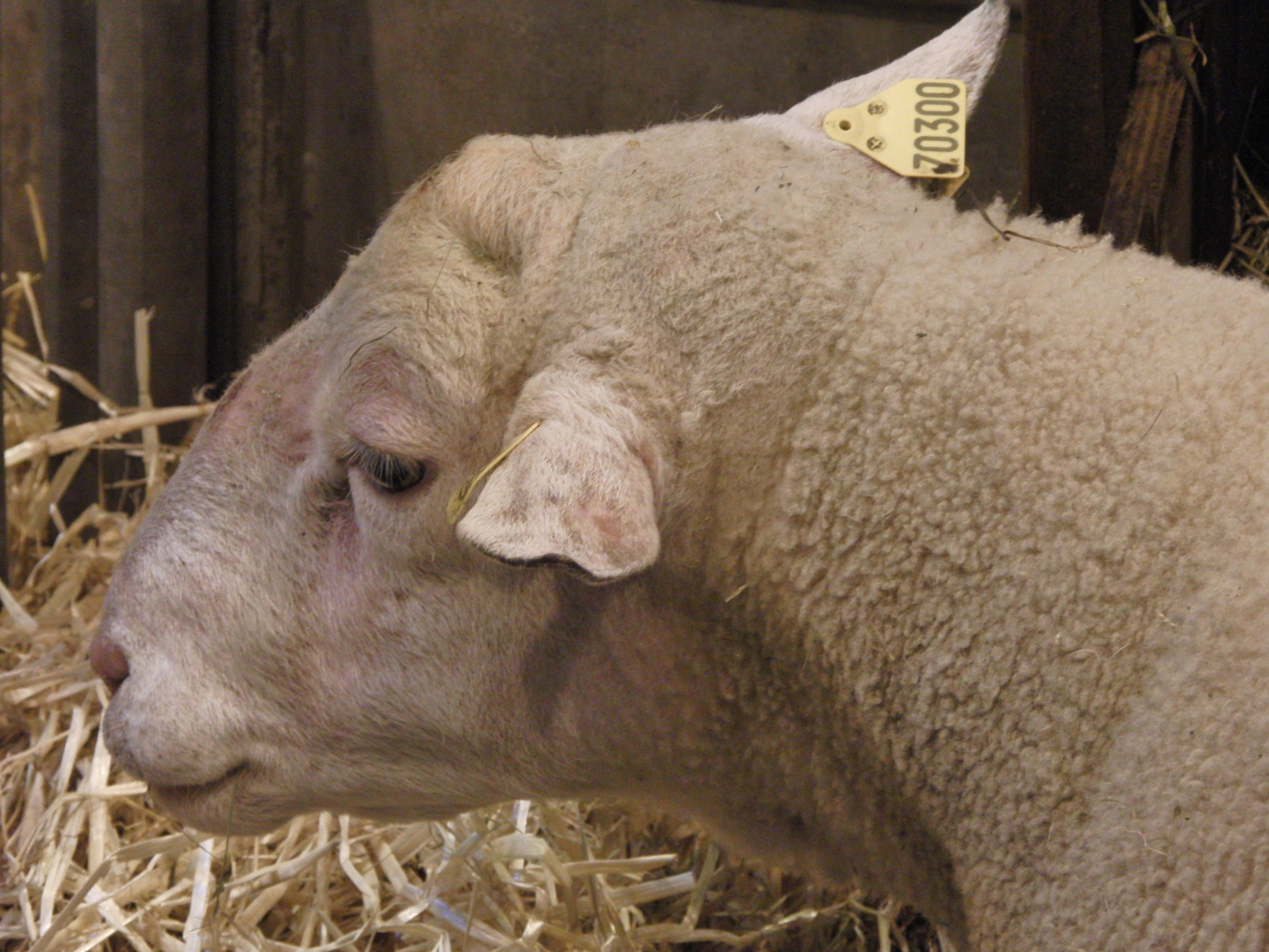 INRA 401 (Romane) sheep's head - Salon international de l'agriculture 2011, Paris, France